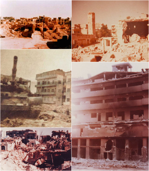 A montage of the 1982 Hama Massacre created from images available on the Wikimedia Commons.